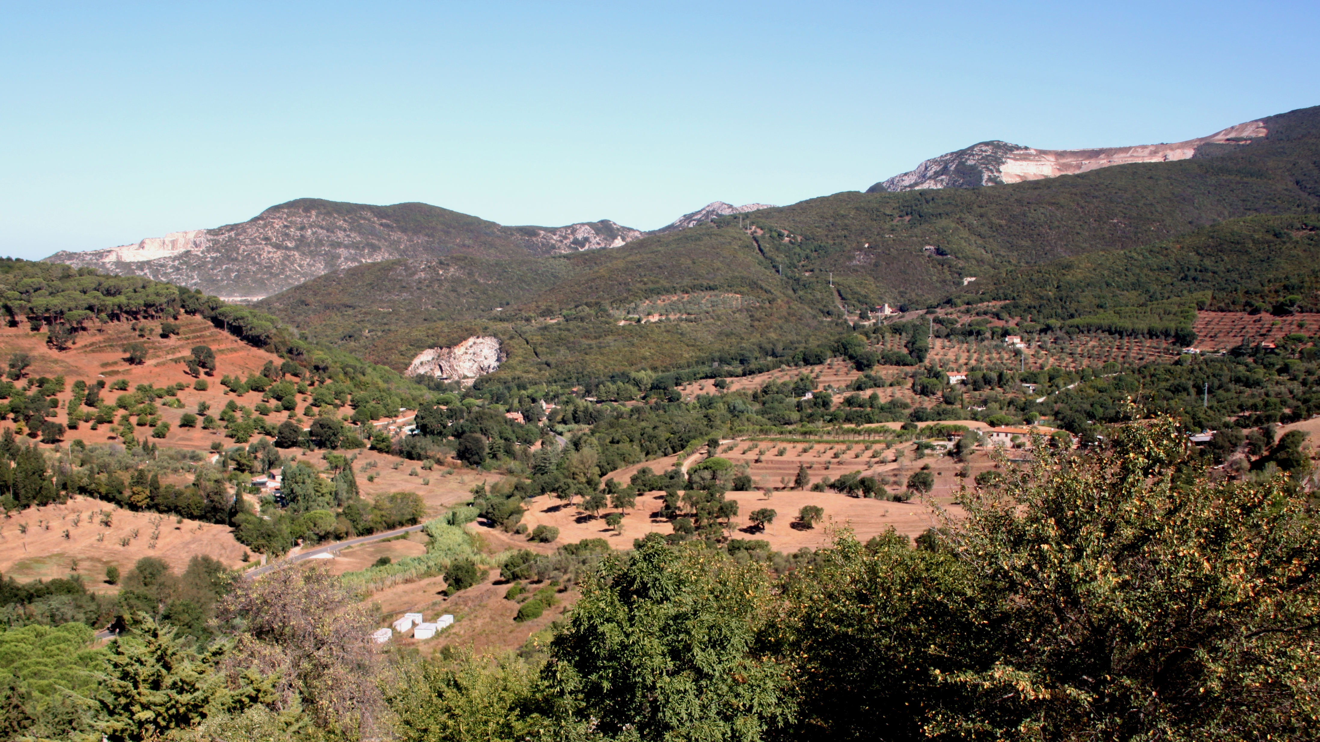 View from Campiglia Maritima castle to the Metalliferous Hills (ital. Colline Metallifere) with various quarries.